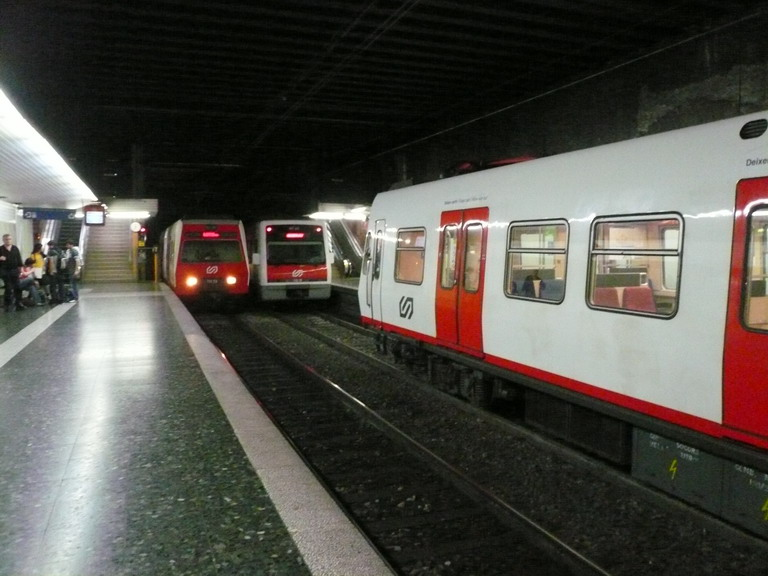 Reina Elisenda FGC station, Barcelona, Catalonia